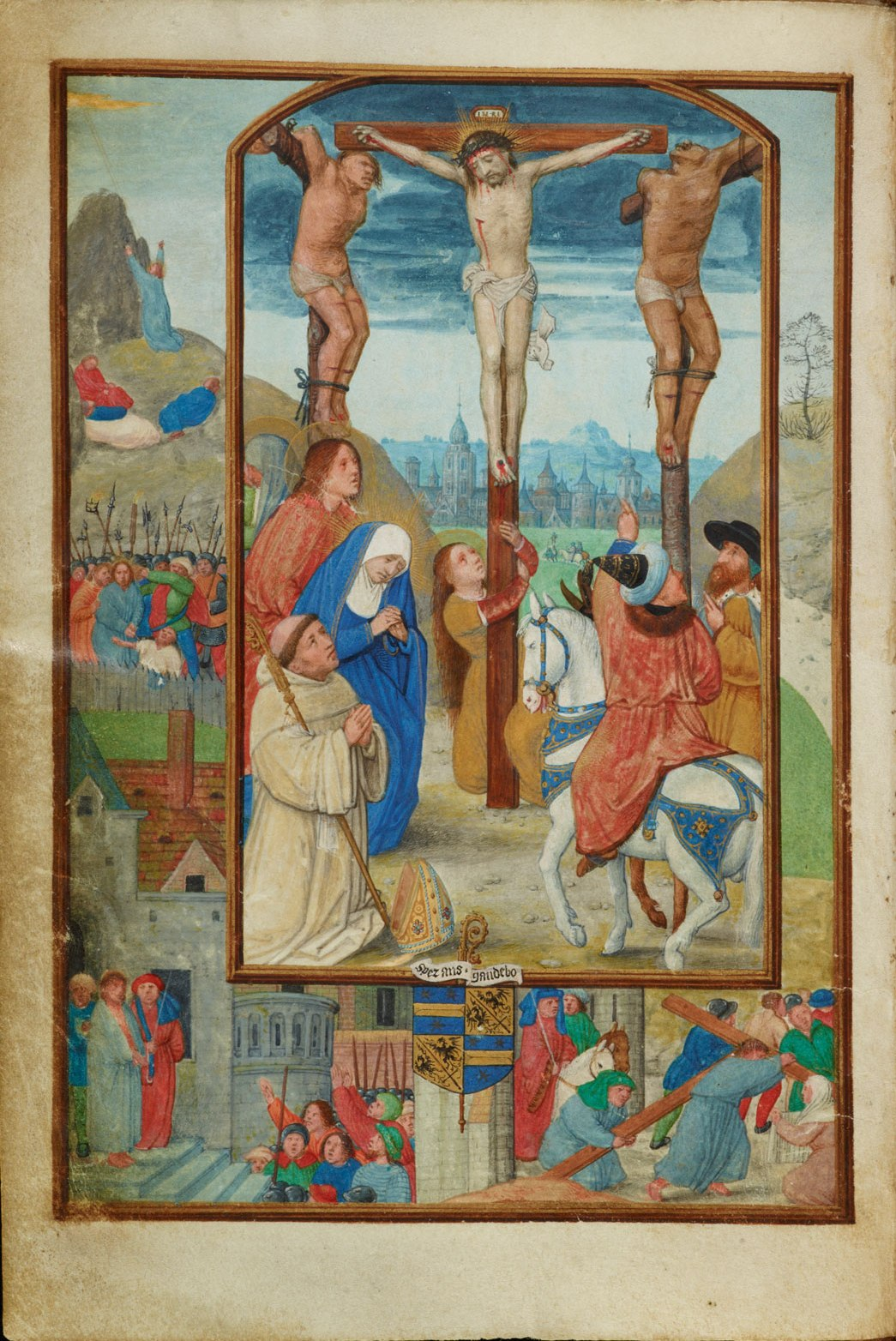 Benedictional commissioned by abbot Robert de Clercq from Simon Bening c. 1519-29. (folio 4v)